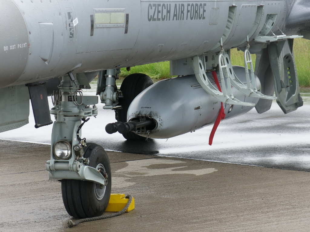 ZVI Plamen PL-20 Gun Pod mounted on a Czech Air Force Aero L-159